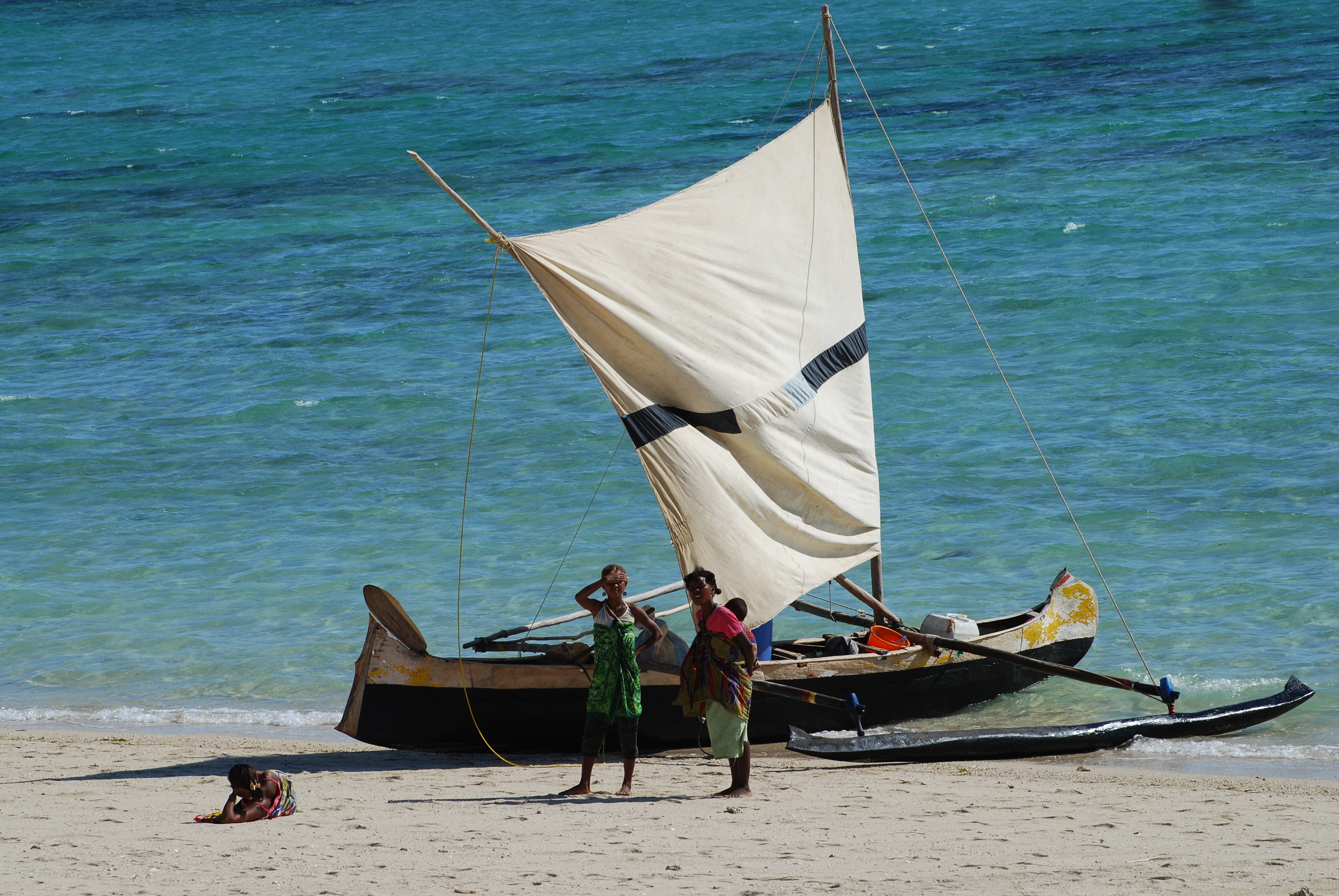 Madagascar - Traditional fishing pirogue Photo by Jonathan Talbot, World Resources Institute, 2007.